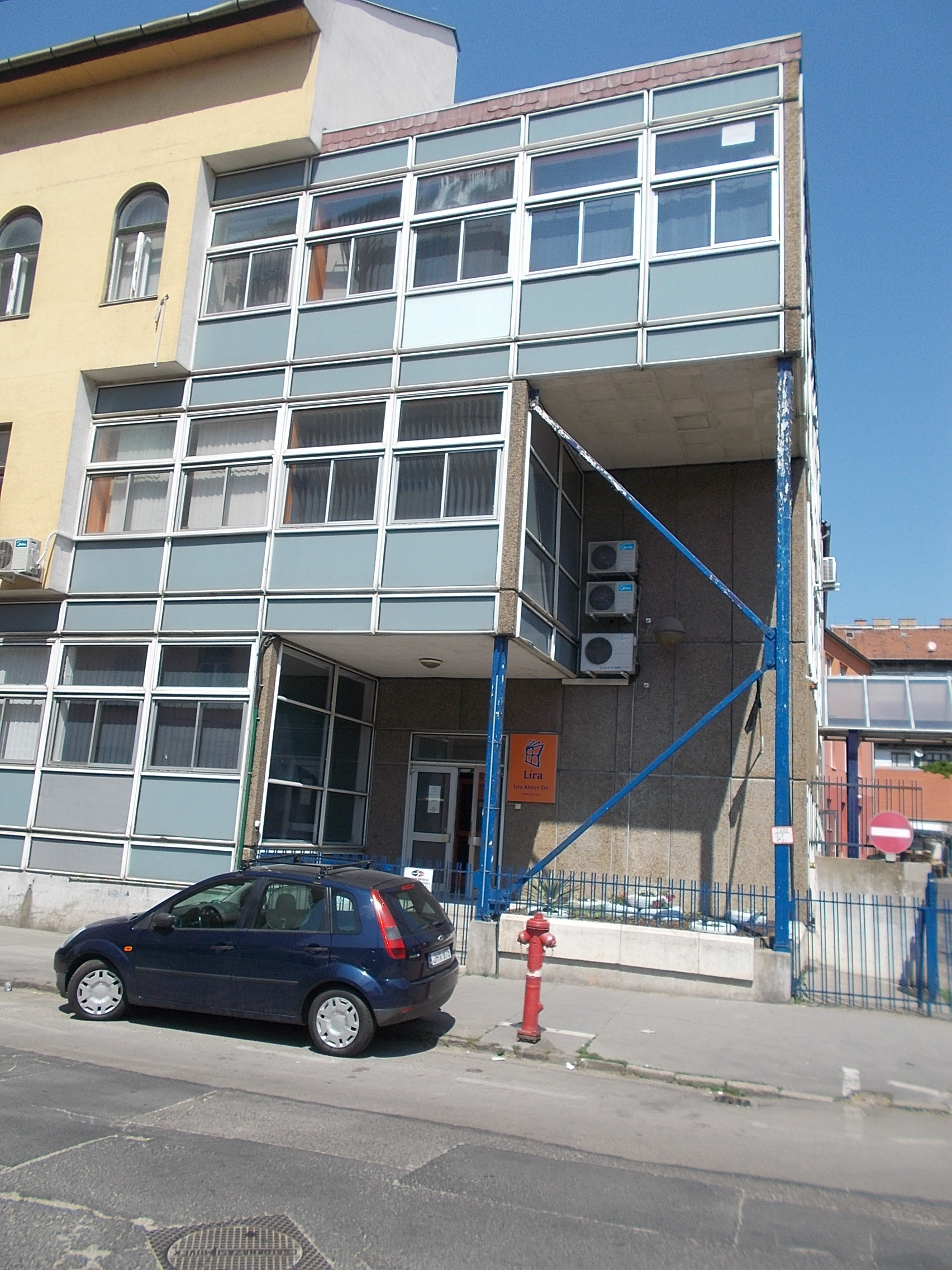 Líra Könyv Zrt. (Est. 1993). Corporate office and storage building?. - c. 4 Dankó street, 8th district of Budapest.